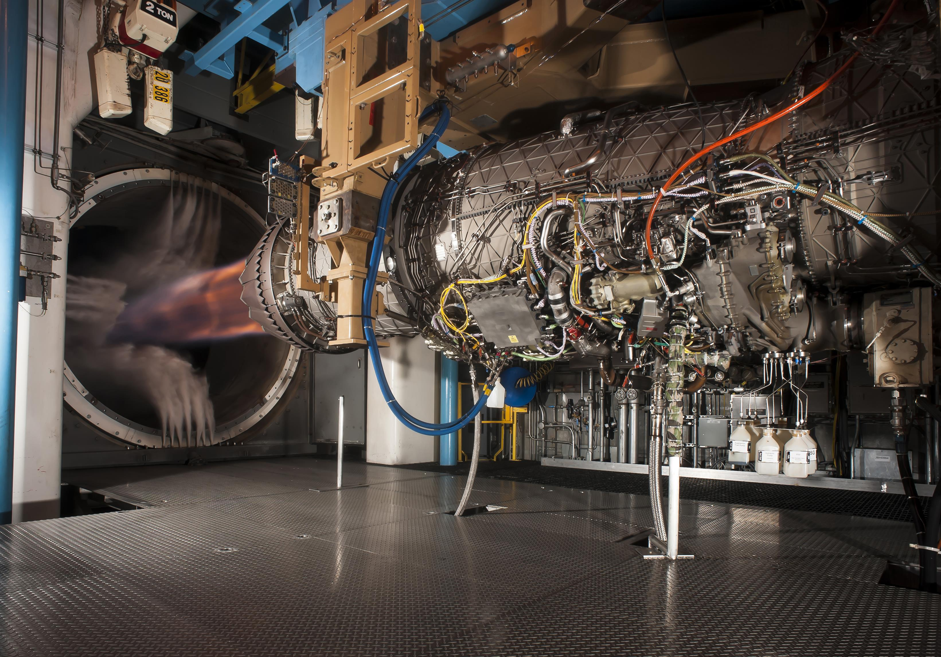 Pratt & Whitney’s F135 engine, used in the F-35 Lightning II, successfully demonstrated hot-life capability during accelerated mission testing at AEDC. Pictured here is the engine during testing in the Engine Test Facility’s sea level 2 test cell.